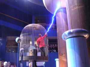 I took this image when on holiday in Boston in 2004. It shows a demonstration of artificial lightning, using the giant Van De Graaf generator in the Boston science museum.